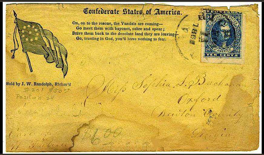 Confederate cover, 1861, w/T.Jefferson postage stamp.